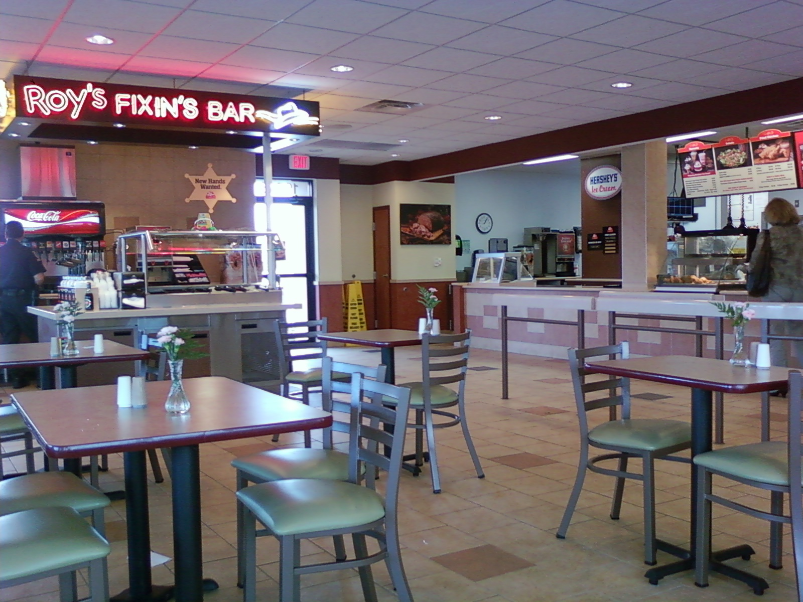 Roy Rogers Restaurant in Germantown (Fox Chapel), MD